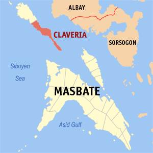 Map of Masbate showing the location of Claveria